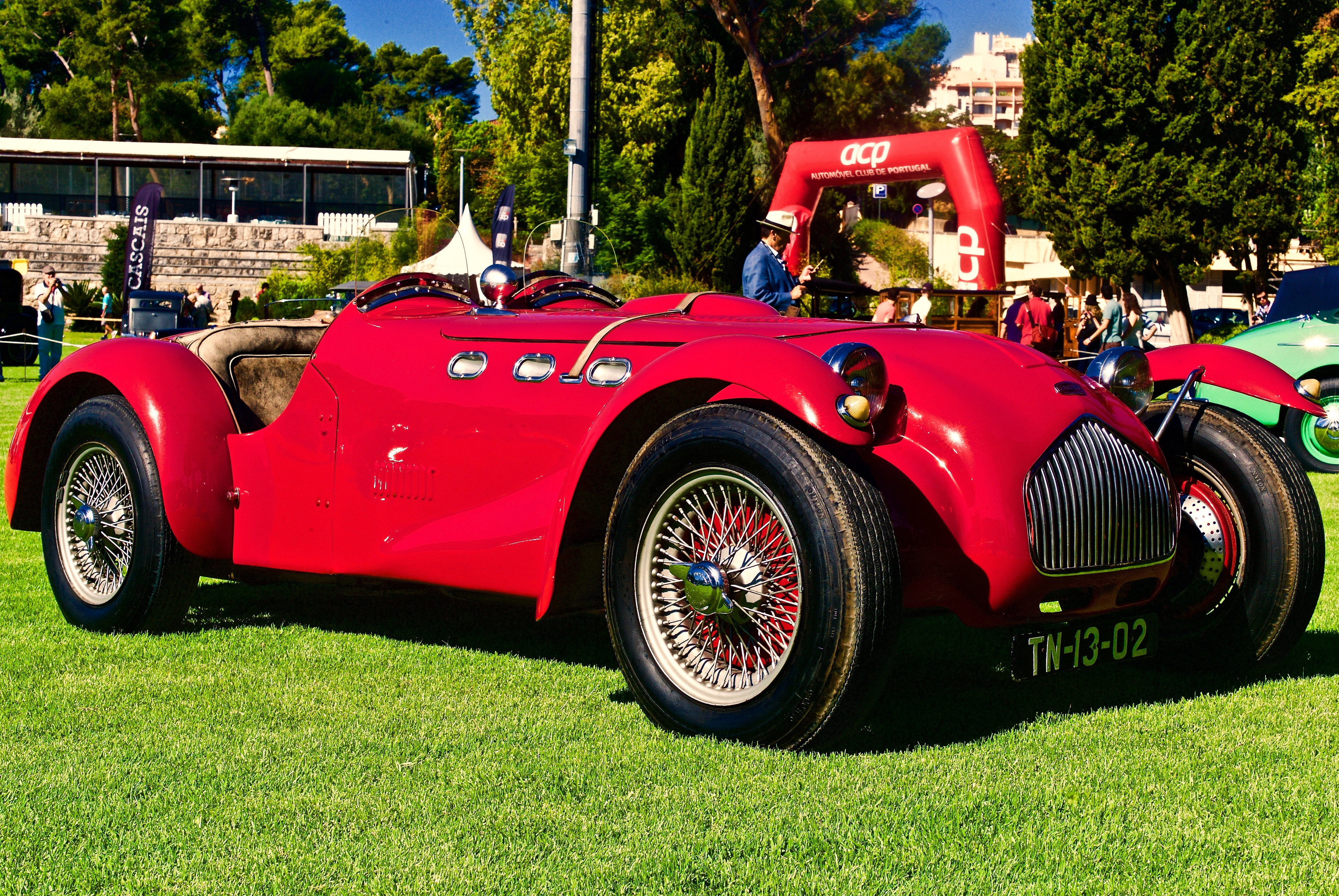 Allard J2 Cascais Classic Motorshow, Cascais, Portugal